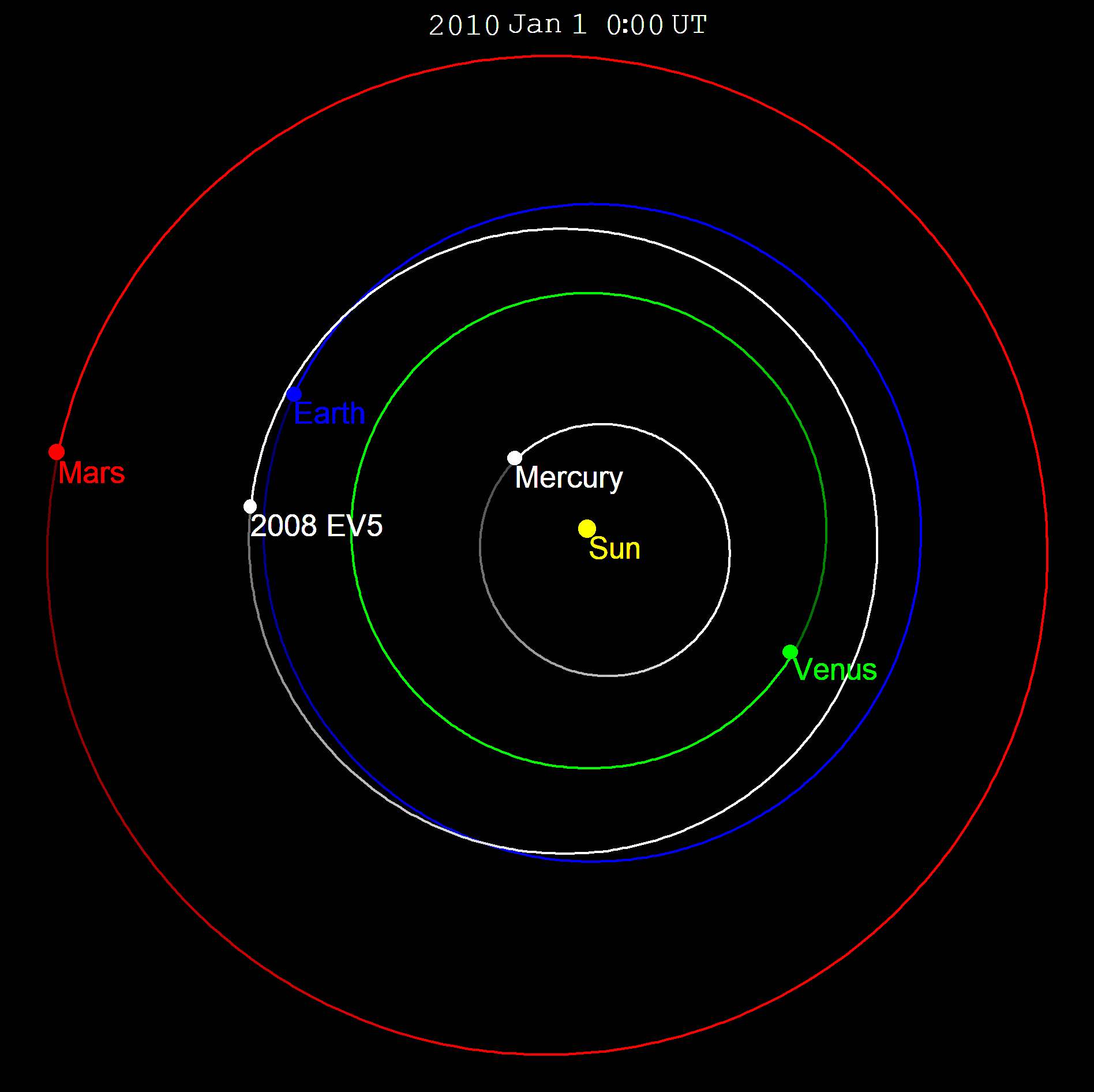 (341843) 2008 EV5 orbit among inner solar system, positions for 2010/1/1